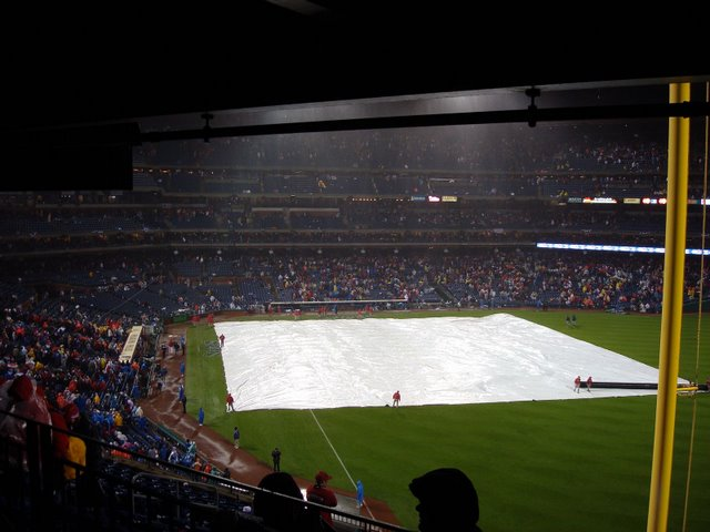 2008 Baseball world series Game 5 Rain delay. The game was suspended shortly after.